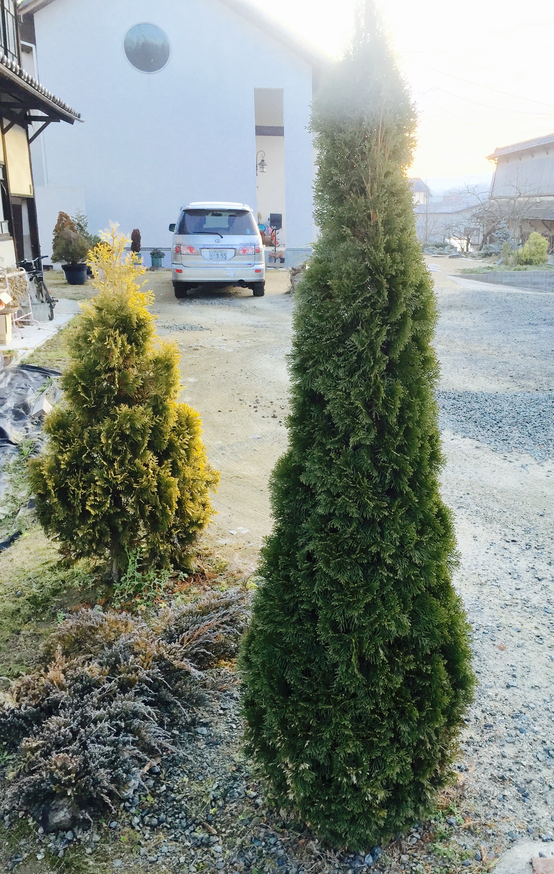 Thuja occidentalis "Smaragd"___"Emerald green" JAPAN